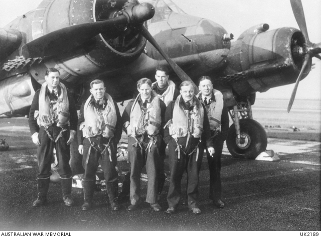 Australian War Memorial image UK2189. Some of No. 455 Squadron RAAF's aircrew standing in front of a Bristol Beaufighter at RAF Dallachy